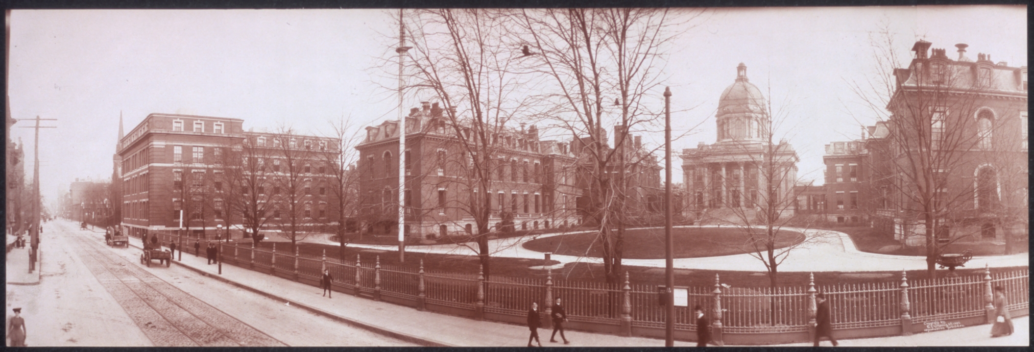 Boston City Hospital, Harrison Ave., Boston, Mass. 1903